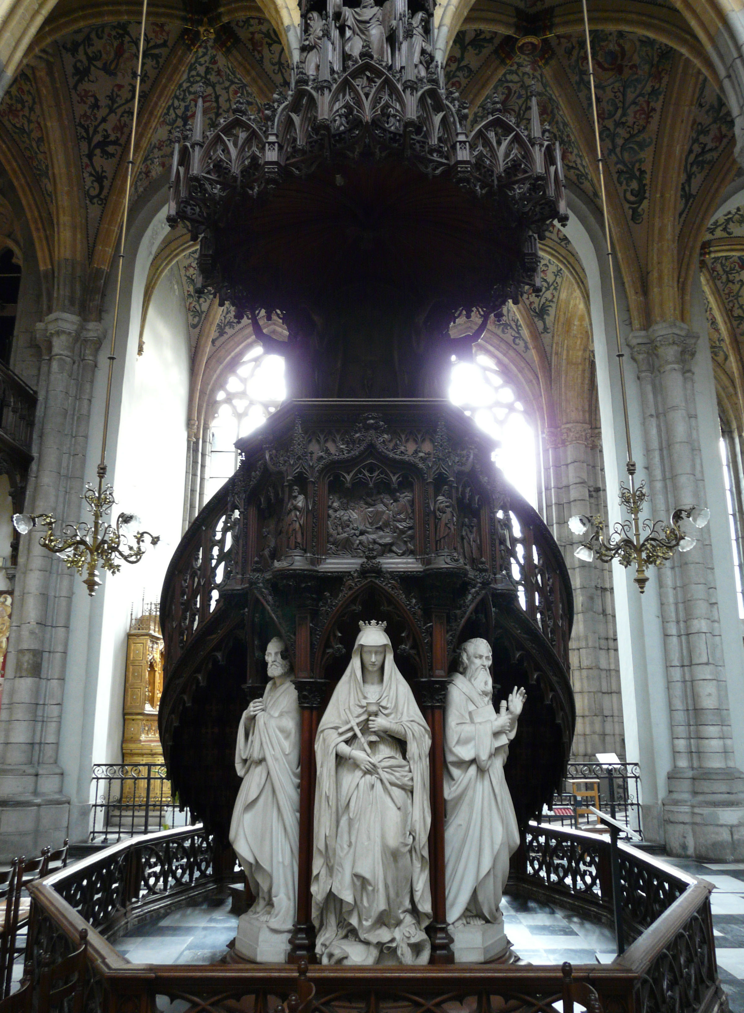 Statues from the Cathedral